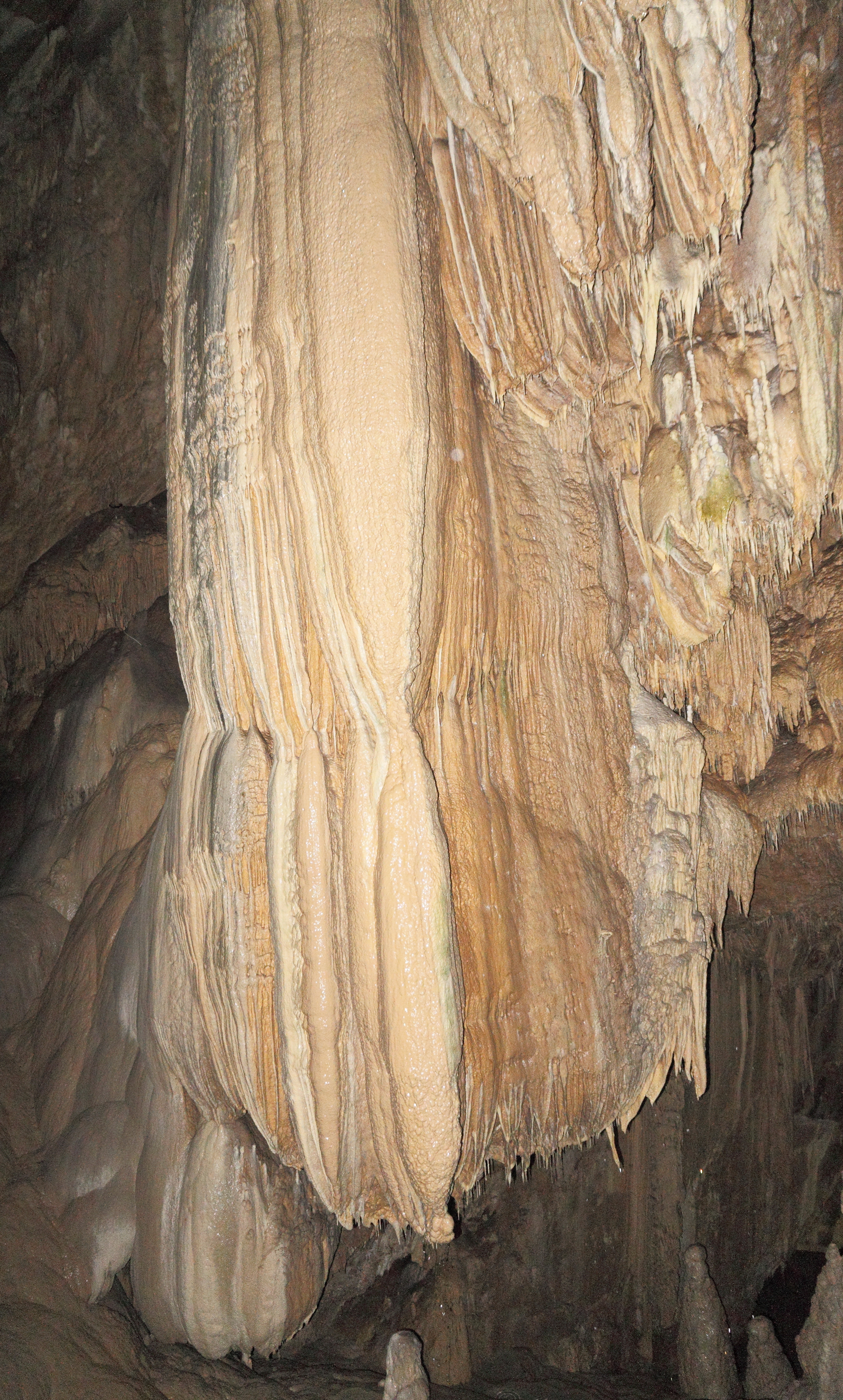 "Petrified waterfall". New Athos Cave. New Athos, Gudauta District, Abkhazia.